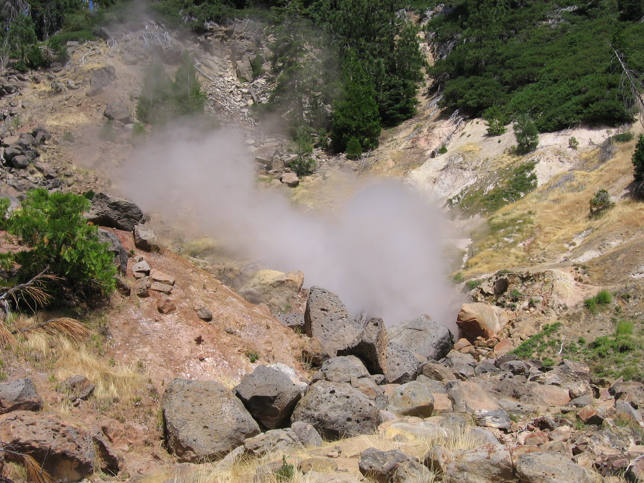 Terminal Geyser in Lassen National Park. I took this photo on July 31, 2005.